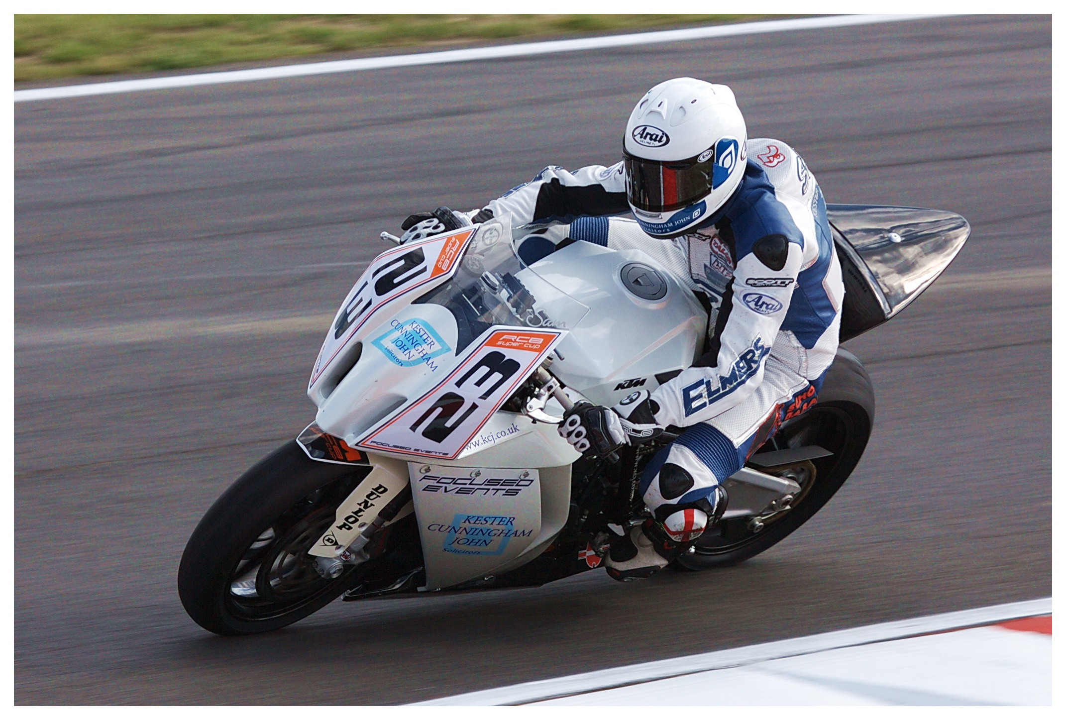 Sam Bishop riding his Kester Cunningham John / Sam Bishop Racing KTM during the 2009 British Superbike Championship at Snetterton.